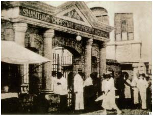 Consulate of the United States in Tsinan (Jinan)